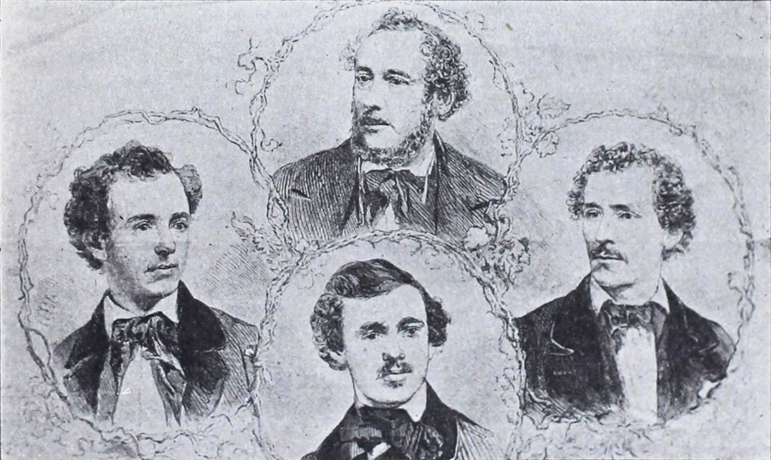 The Original Buckley Serenaders. Top: James Buckley. From left to right: R. Bishop Buckley, Fred Buckley, Swain Buckley